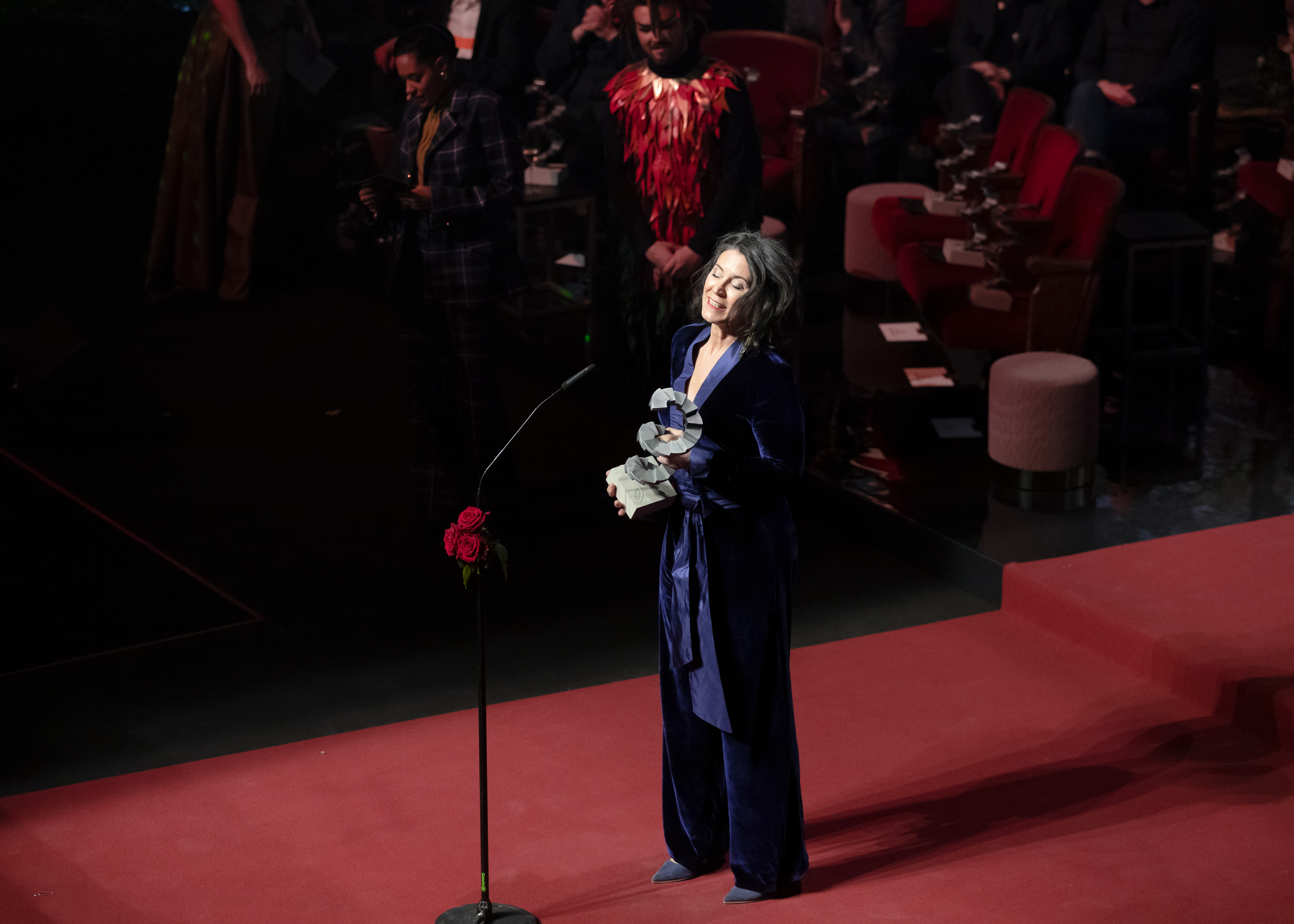 Christine Ludwig (Wie ich lernte, bei mir selbst Kind zu sein) at the award ceremony of the Austrian Film Awards 2020 (Auditorium Grafenegg at Grafenegg Castle, Lower Austria,Austria).